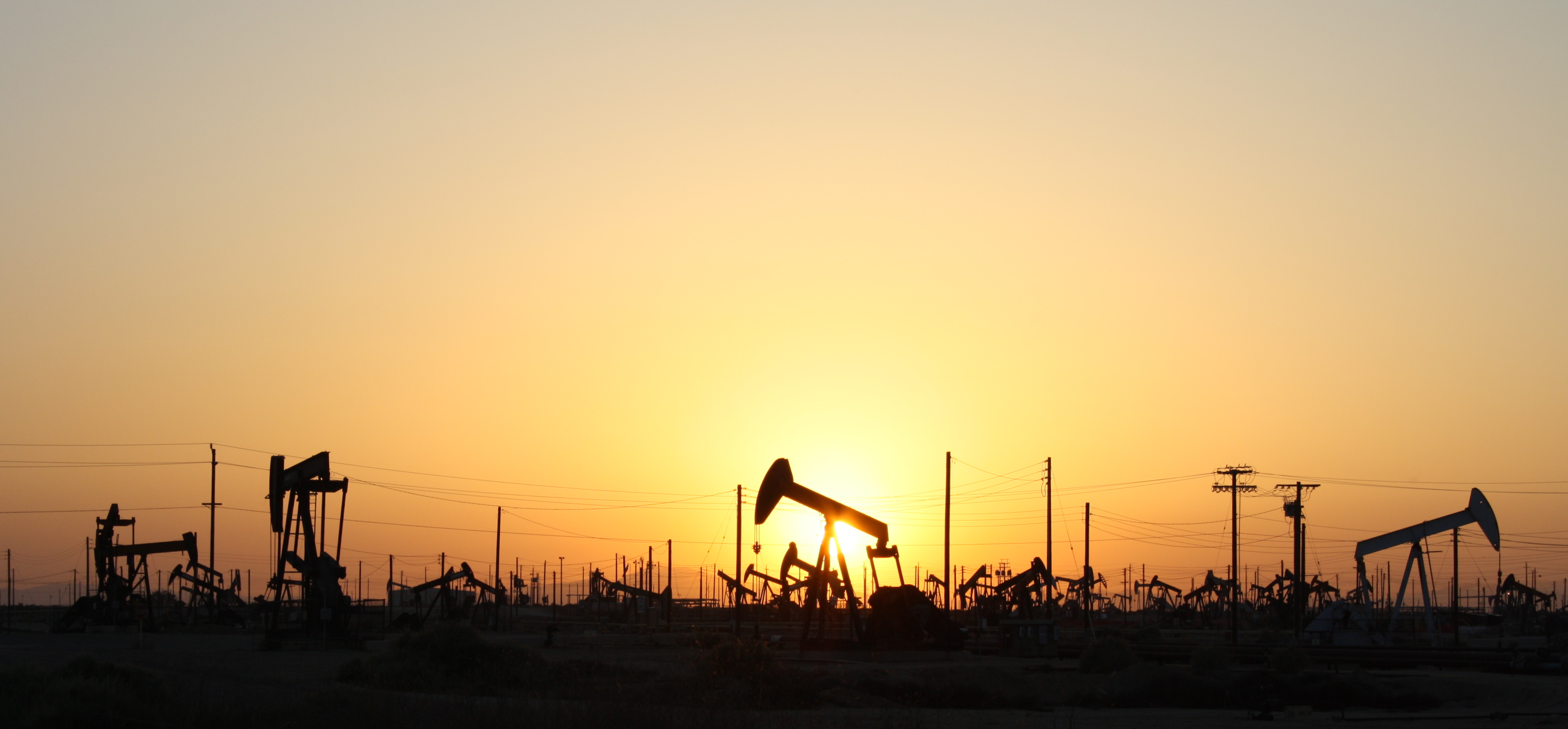 Pumpjacks on Lost Hills Oil Field in California on Route 46 at sunset. Almost all of the pumps shown on this picture were busy when I took the picture.